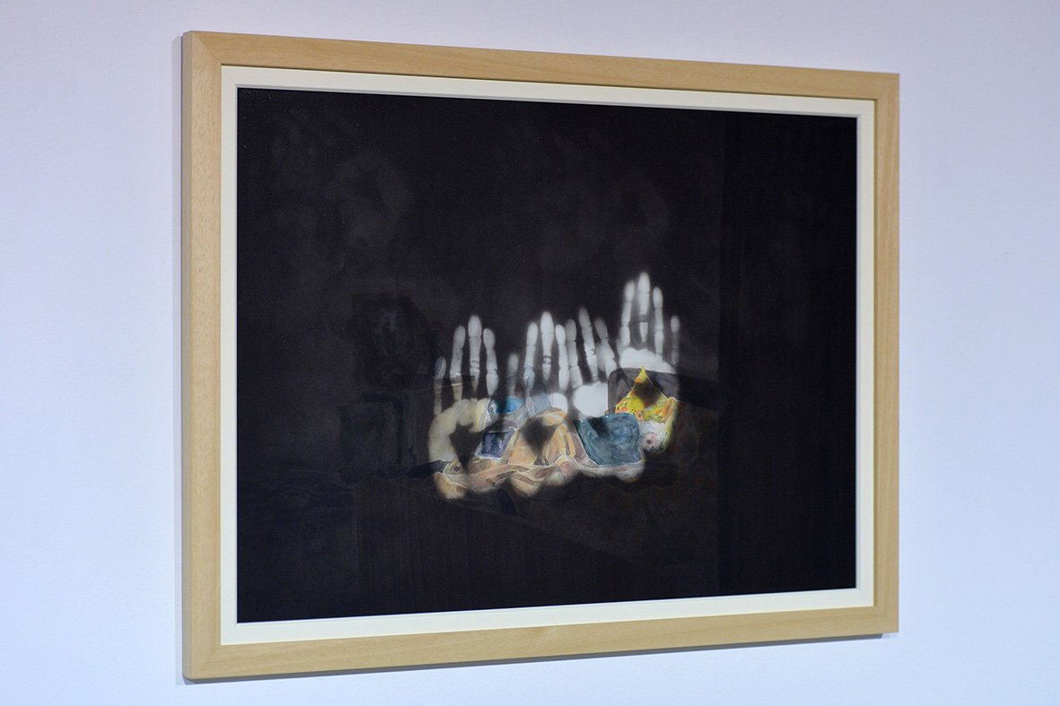 Traces of interaction on the exhibition "Clean&Wrong", Museum of Contemporary Art, Zagreb, Croatia